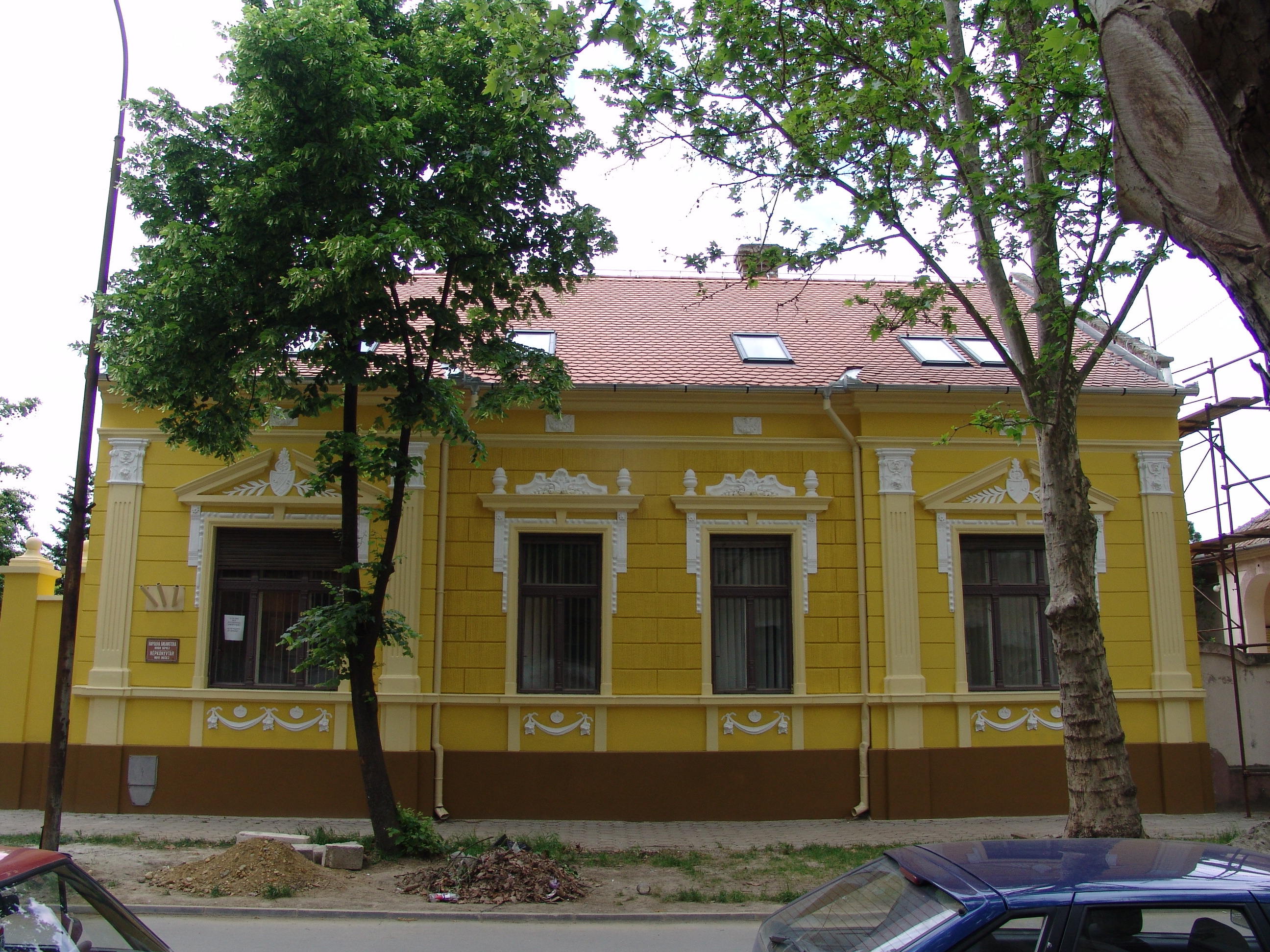 Public library in Novi Bečej - street facade